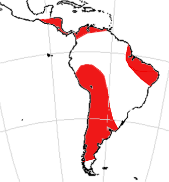 Range of Toxodontidae